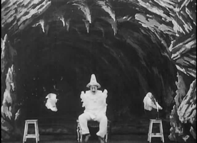 An image from the 1901 film Dislocation mystérieuse directed by Georges Méliès and staring André Deed